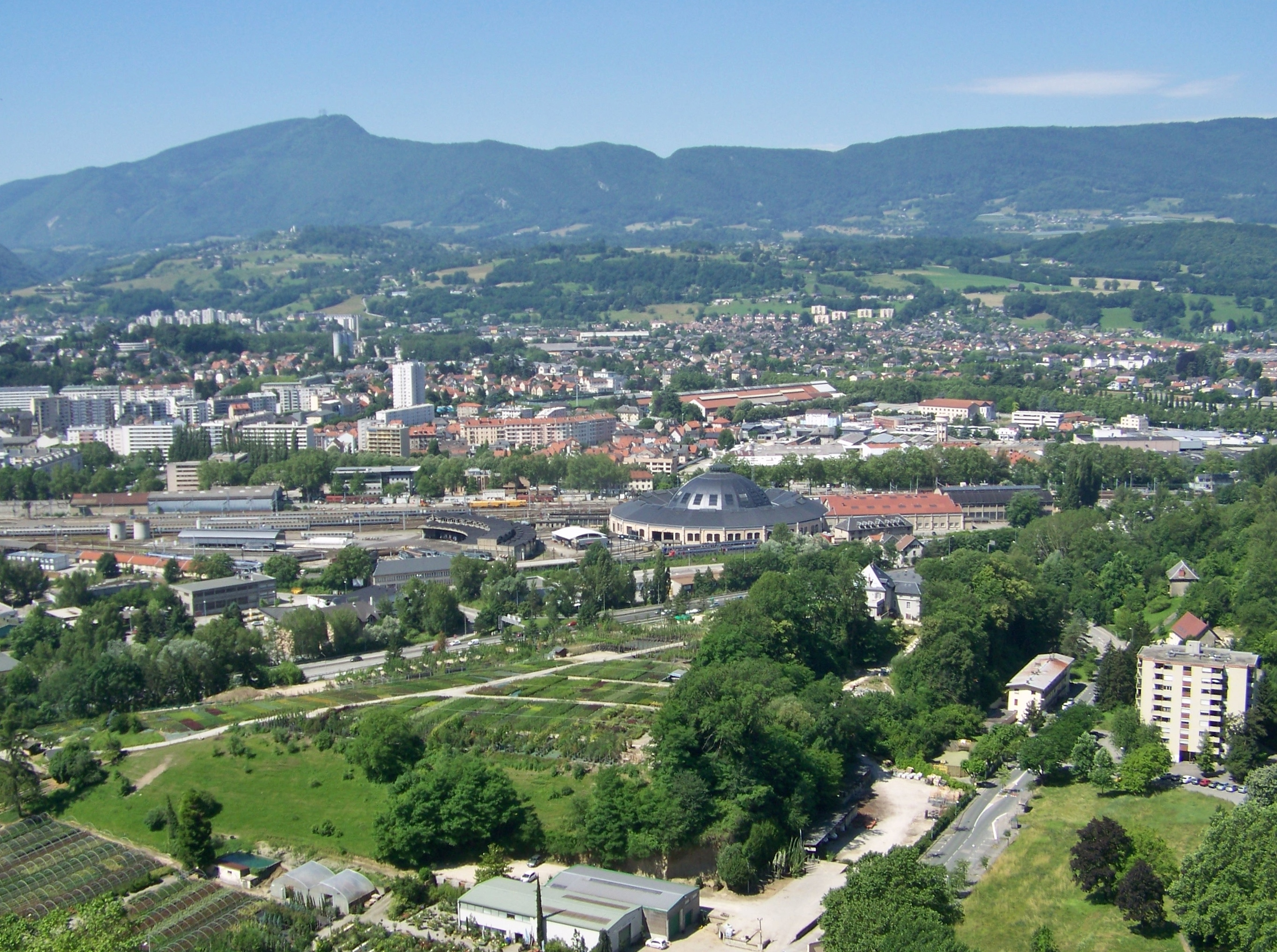 Neighborhood of the city of Chambéry railway roundhouse, situated in La Cassine and Beauvoir (foreground) and Angleterre (background), in Savoie, France.